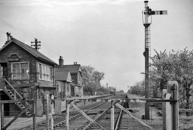 Bainton Station (remains) Near to Bainton, East Riding of Yorkshire, England. Eastward view on Market Weighton - Driffield line (closed June 1965); station closed September 1954 - but still very much in evidence 5½ years later.